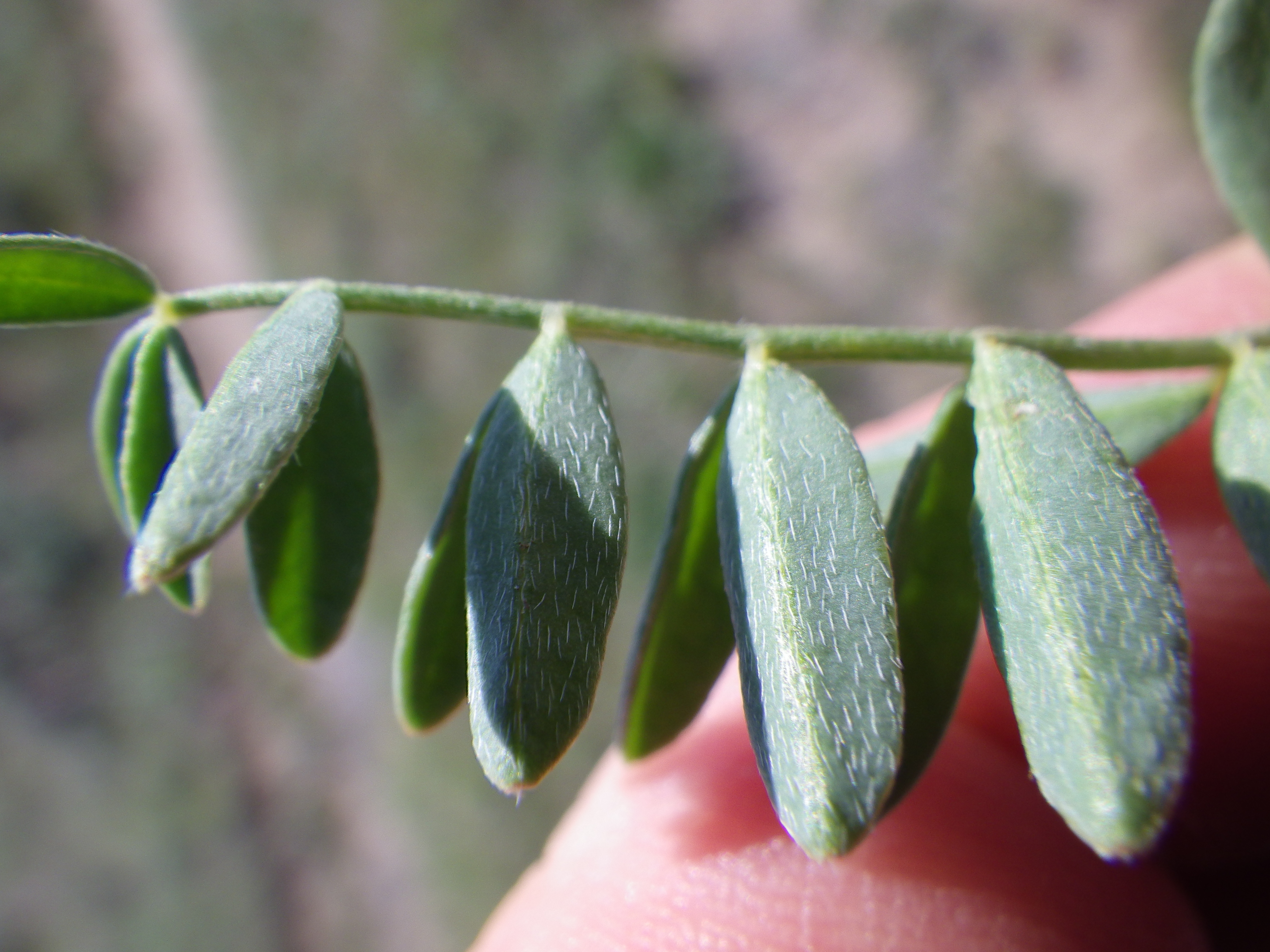 Astragalus adsurgens bears dolabrioform (medifixed) hairs.